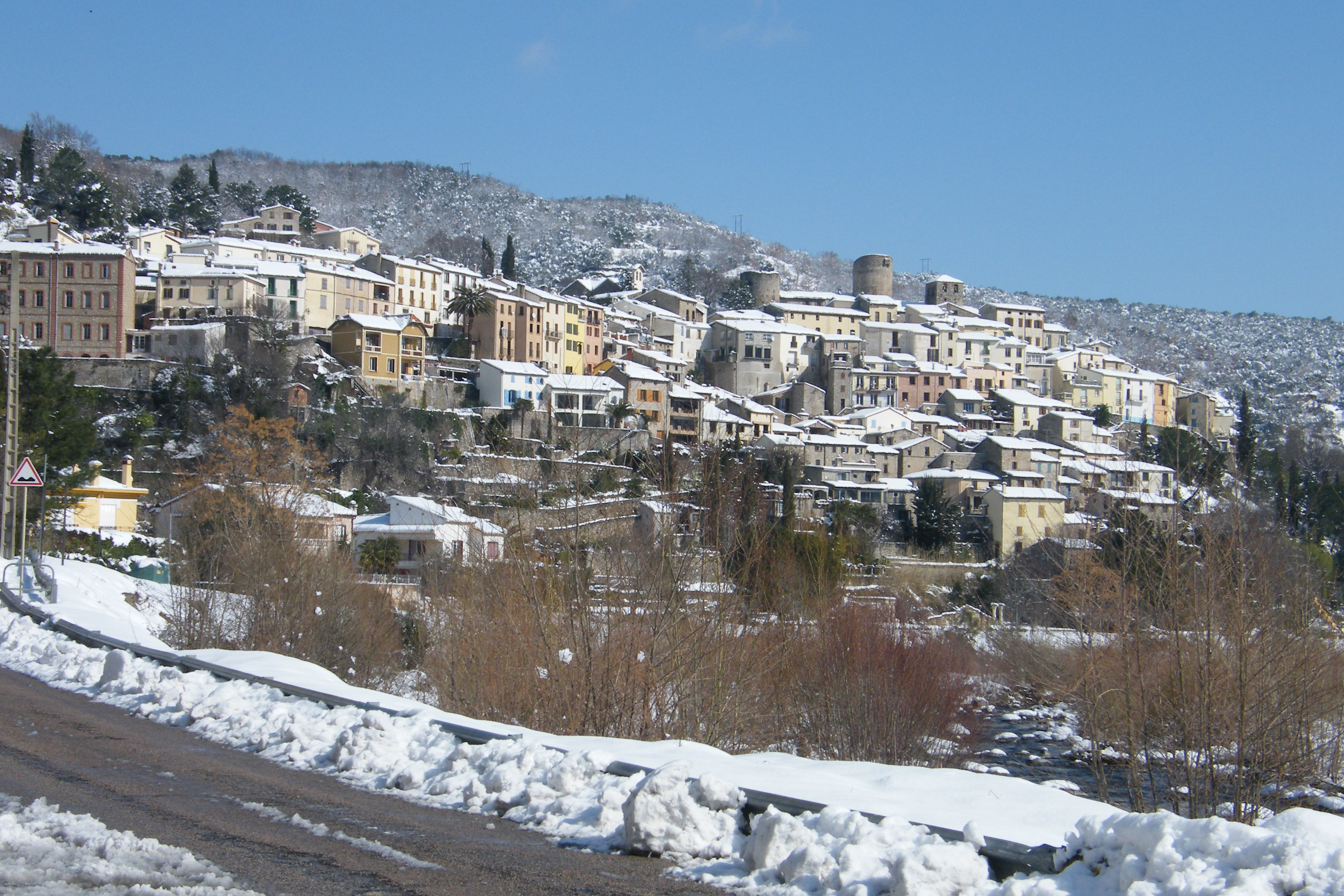 Amélie-les-Bains-Palalda: a view of the old village of Palalda under snow